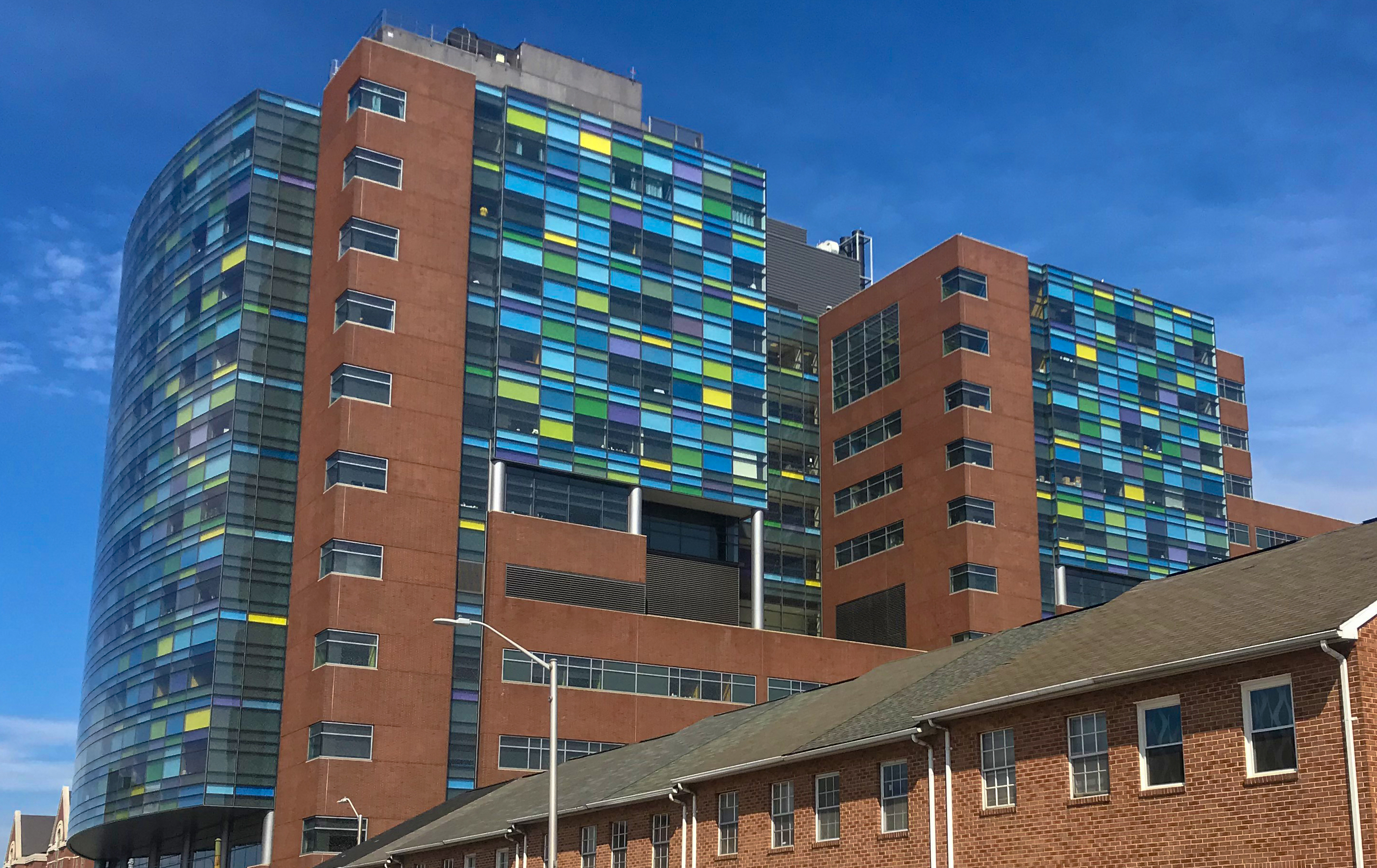 Bloomberg Pavilion of Johns Hopkins Hospital that hosts the Johns Hopkins Children's Center